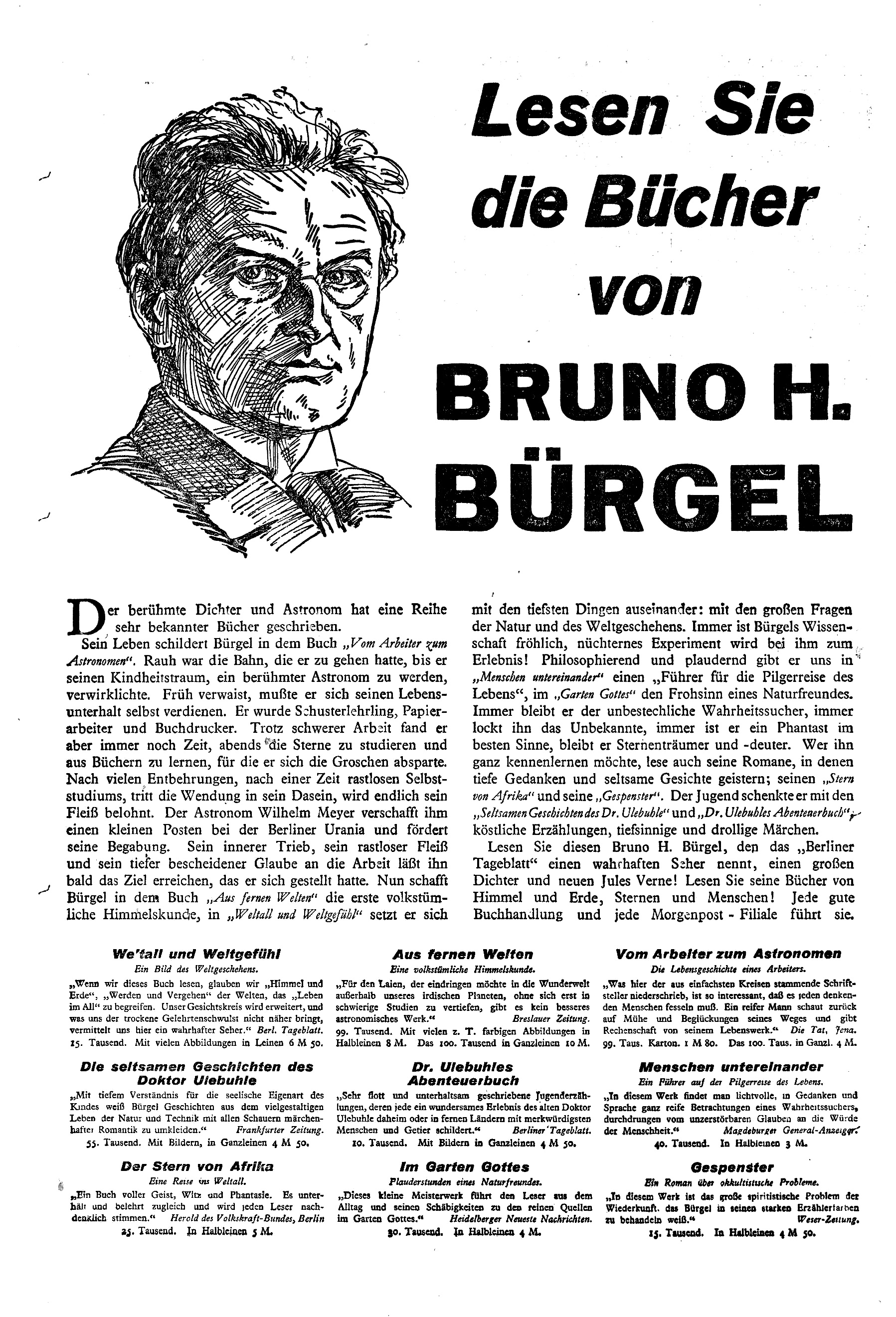 Full-page advertisement to the sale of books of Bruno H. Bürgel in the Berlin newspaper "Berliner Morgenpost" of 14th of September, 1930